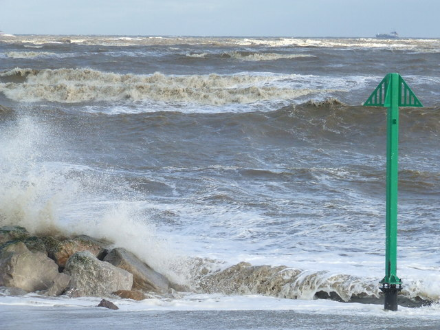 Breaking waves The North of Felixstowe Suffolk on a cold winter's day.